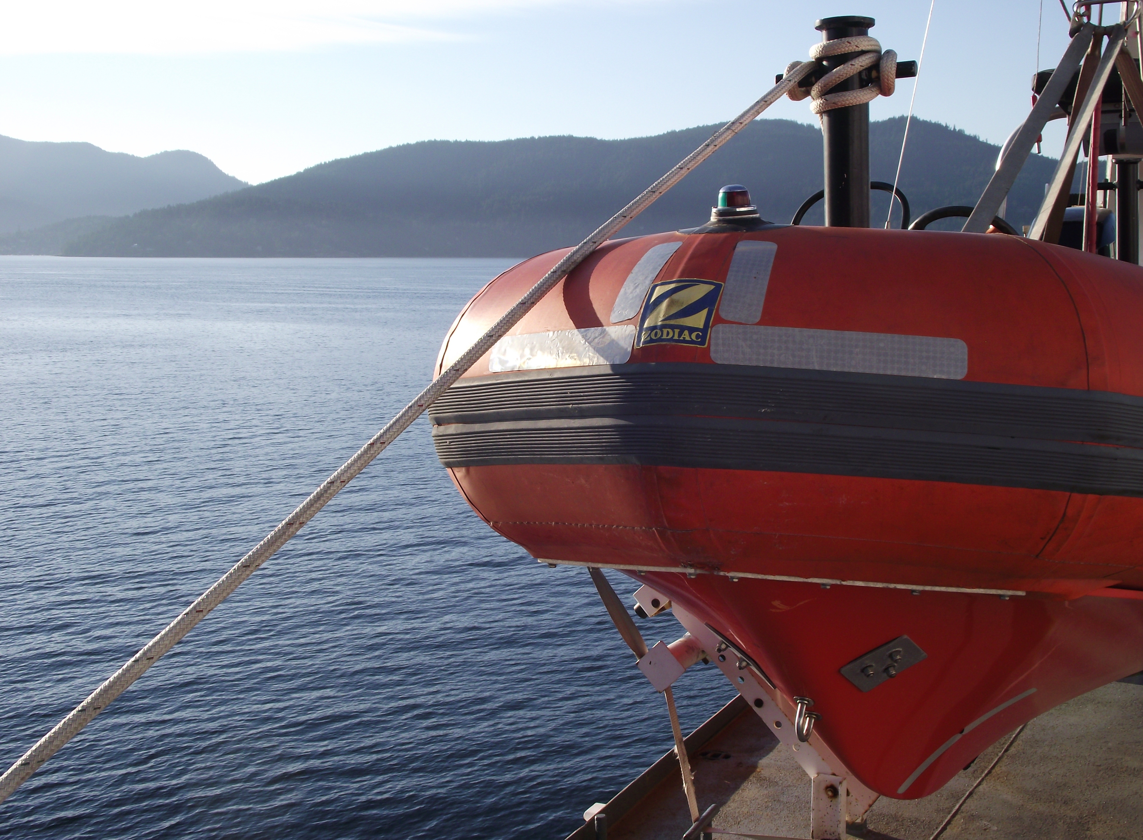 Zodiac RHIB prepared as an emergency boat on a ferry in British Columbia, Canada